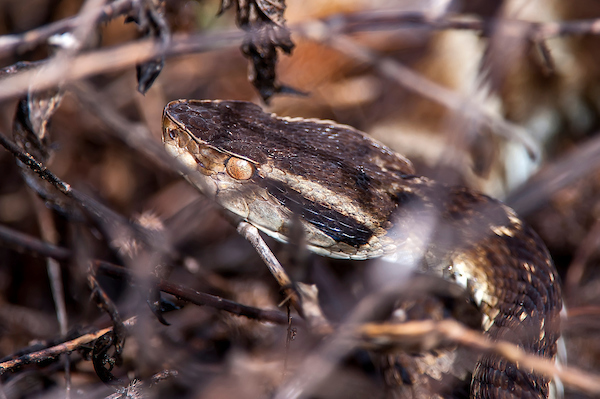 "Jararaca-da-mata (Bothrops jararaca) fotografado em Pedra Azul, Espírito Santo - Sudeste do Brasil. Bioma Mata Atlântica. Registro feito em 2014. ENGLISH: Pit viper photographed in Pedra Azul, Espírito Santo - Southeast of Brazil. Atlantic Forest Biome. Picture made in 2014."